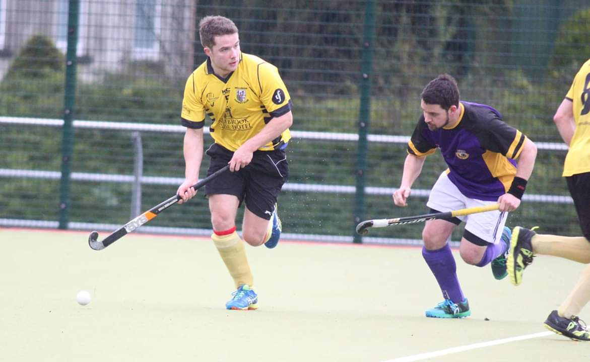 Mullingar Hockey Club action shot